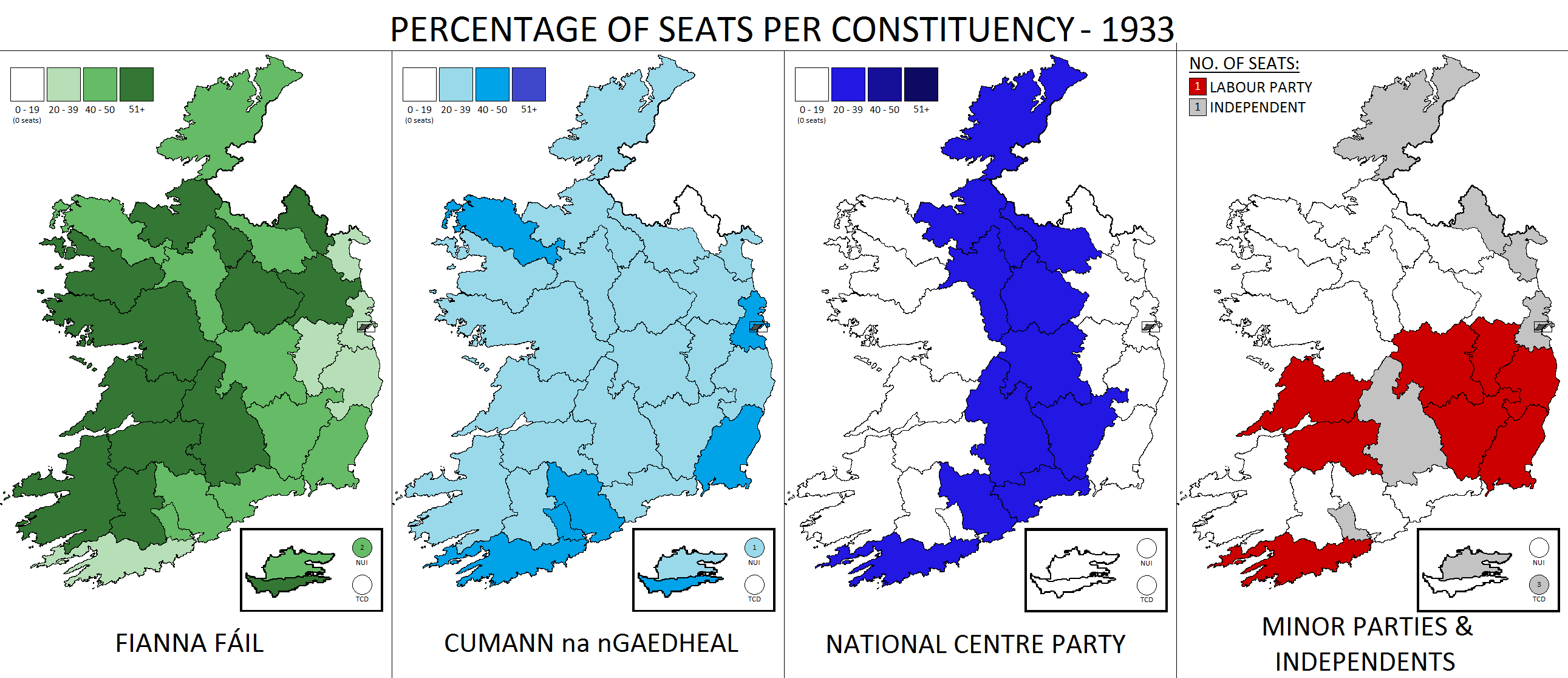 Graphical representation of the 1933 Irish general election results. Created by myself using data from Wikipedia and literary sources.